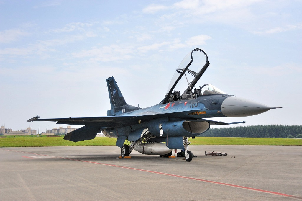 Mitsubishi F-2B. "B" means Two-seat Training Version, Based on F-16D block 40/42. "A" means Shingle-seat Fighter.